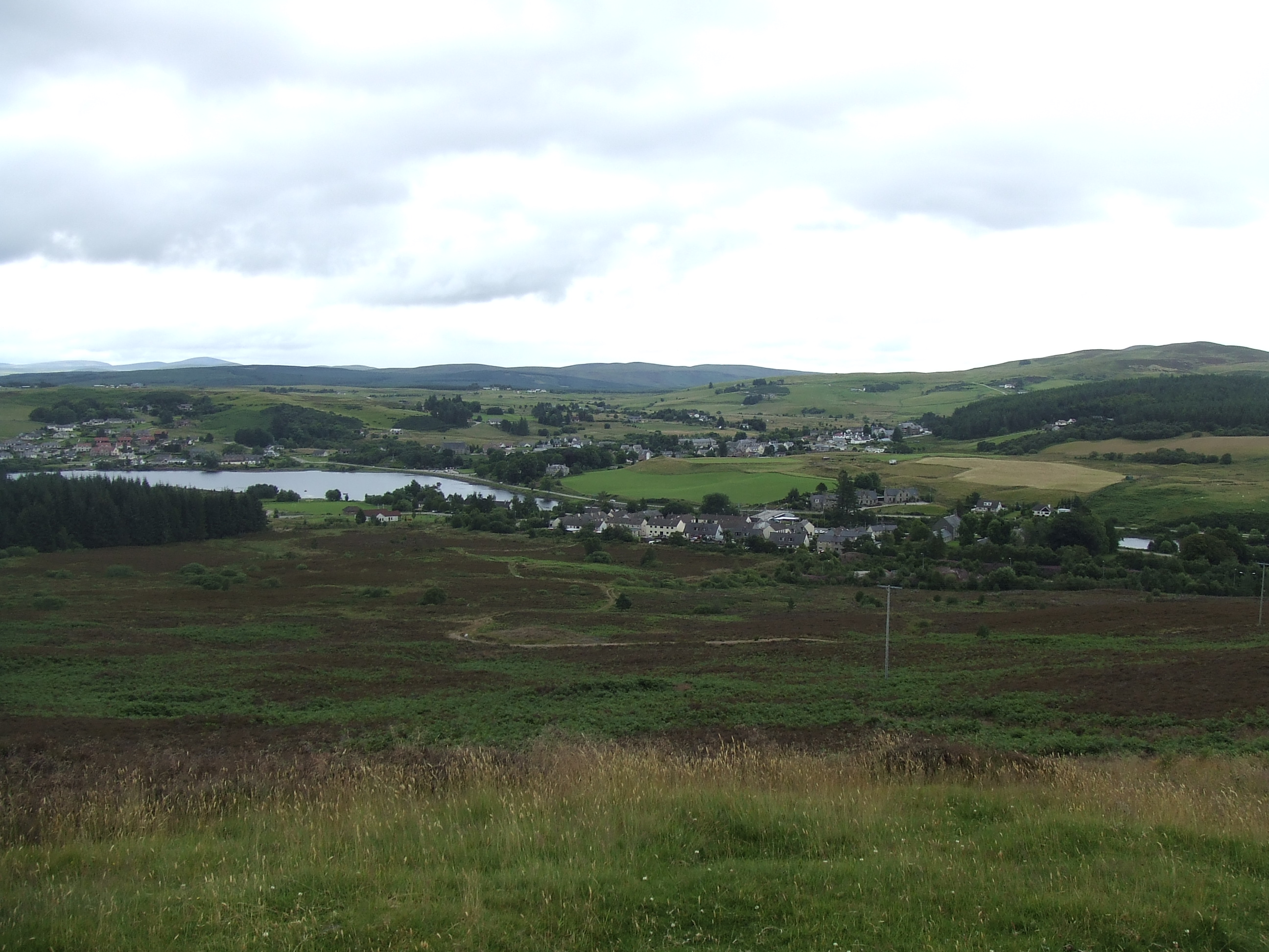 This is a photograph of the village of Lairg, Scotland shot from the top of nearby Ord Hill.